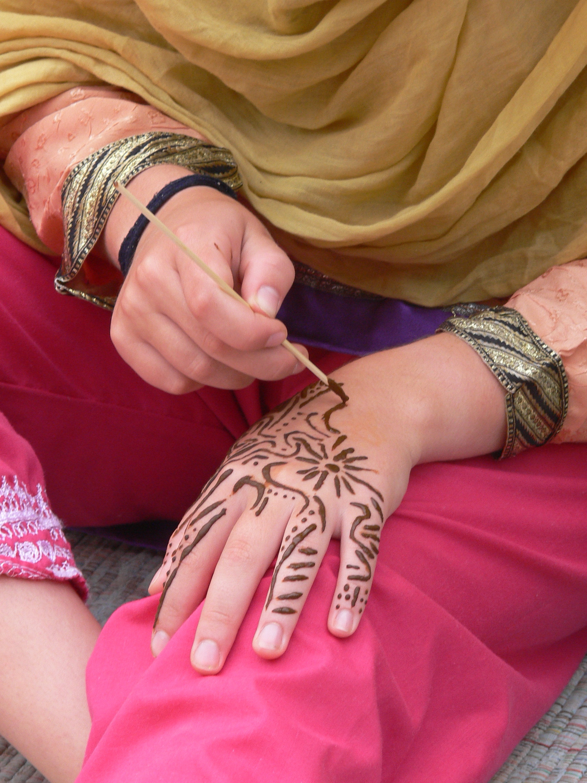 Bible museum in Nijmegen. Tell Arab: Arab woman painting her hand with henna